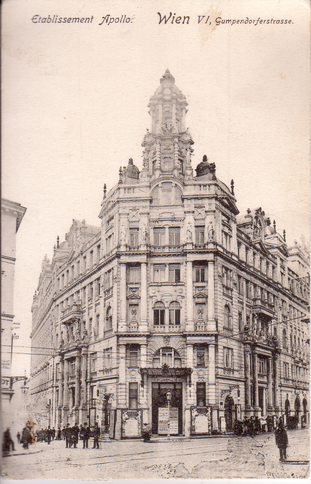 Apollo Theatre Vienna around 1905